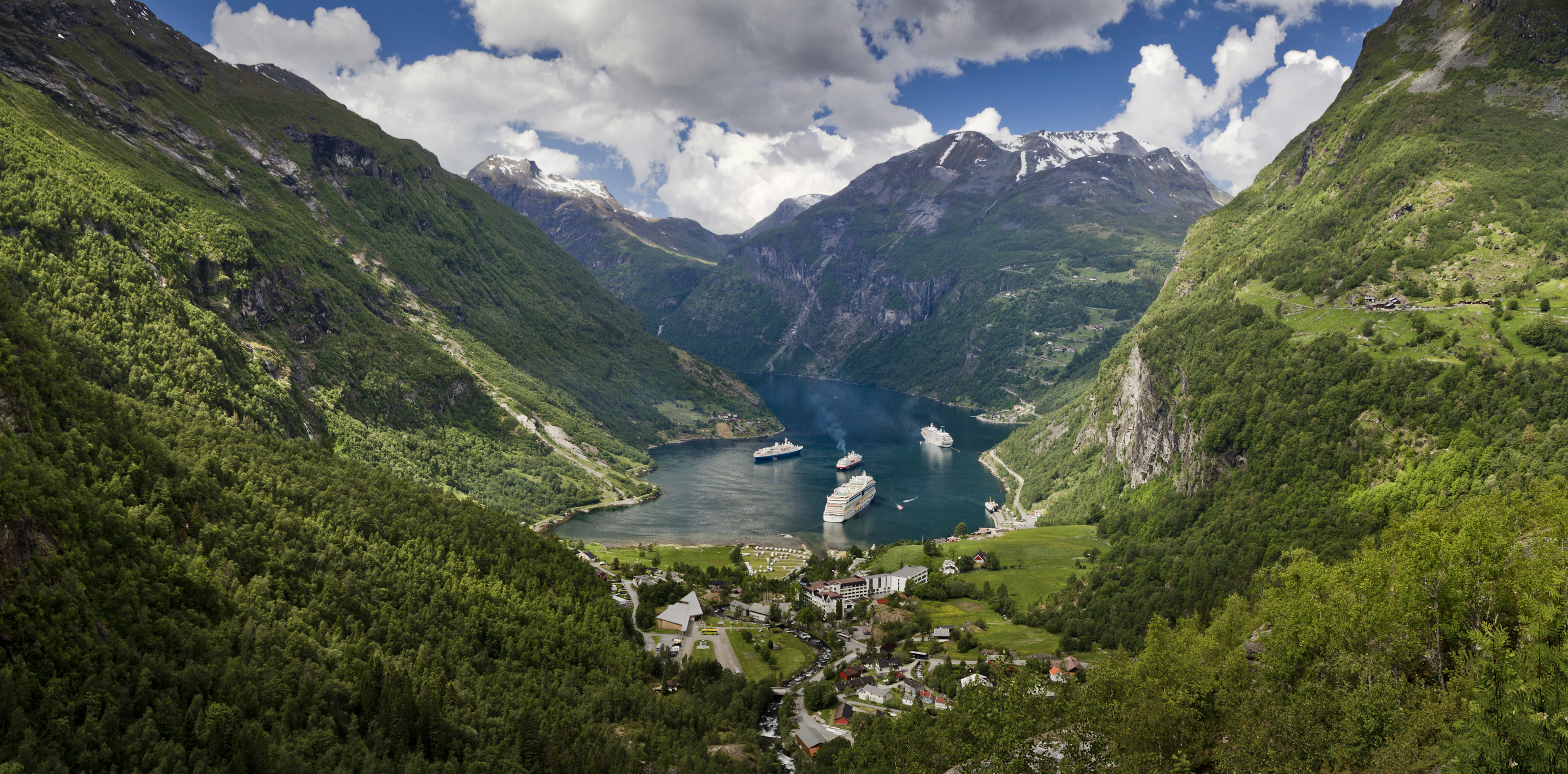 A view to Geiranger and Geirangerfjorden from Flydalsjuvet in Stranda municipality, Møre og Romsdal, Norway in 2013 June.